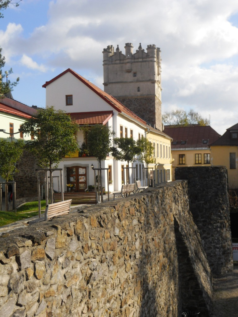 Jihlava, city walls towards the tower